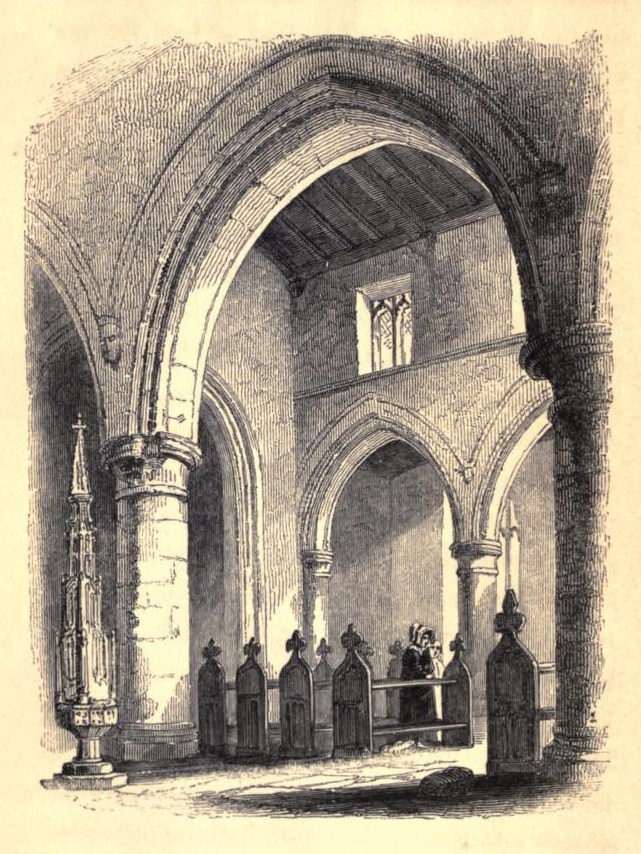 Illustration of church pews from opposite p. 221 of Milford Malvoisin, or Pews and Pewholders (1842), by Francis Edward Paget. The caption below read "Churches as they were, and as they will be."